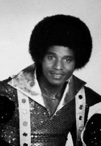 Publicity photo of Jackie Jackson in The Jacksons television variety show.